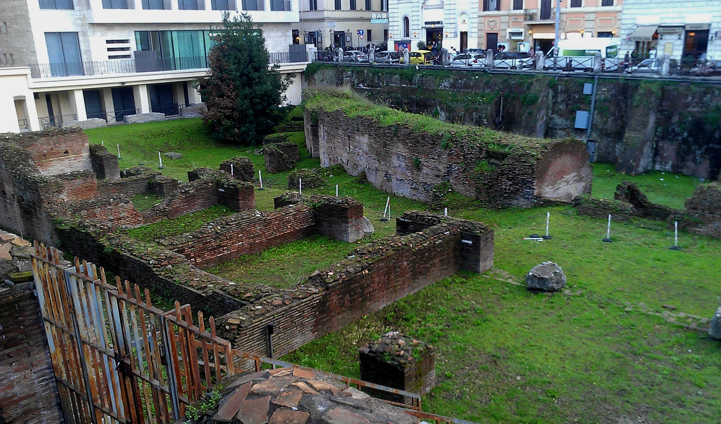 The eastern end of Ludus Magnus, as photographed from the north of the site, located in Rome.